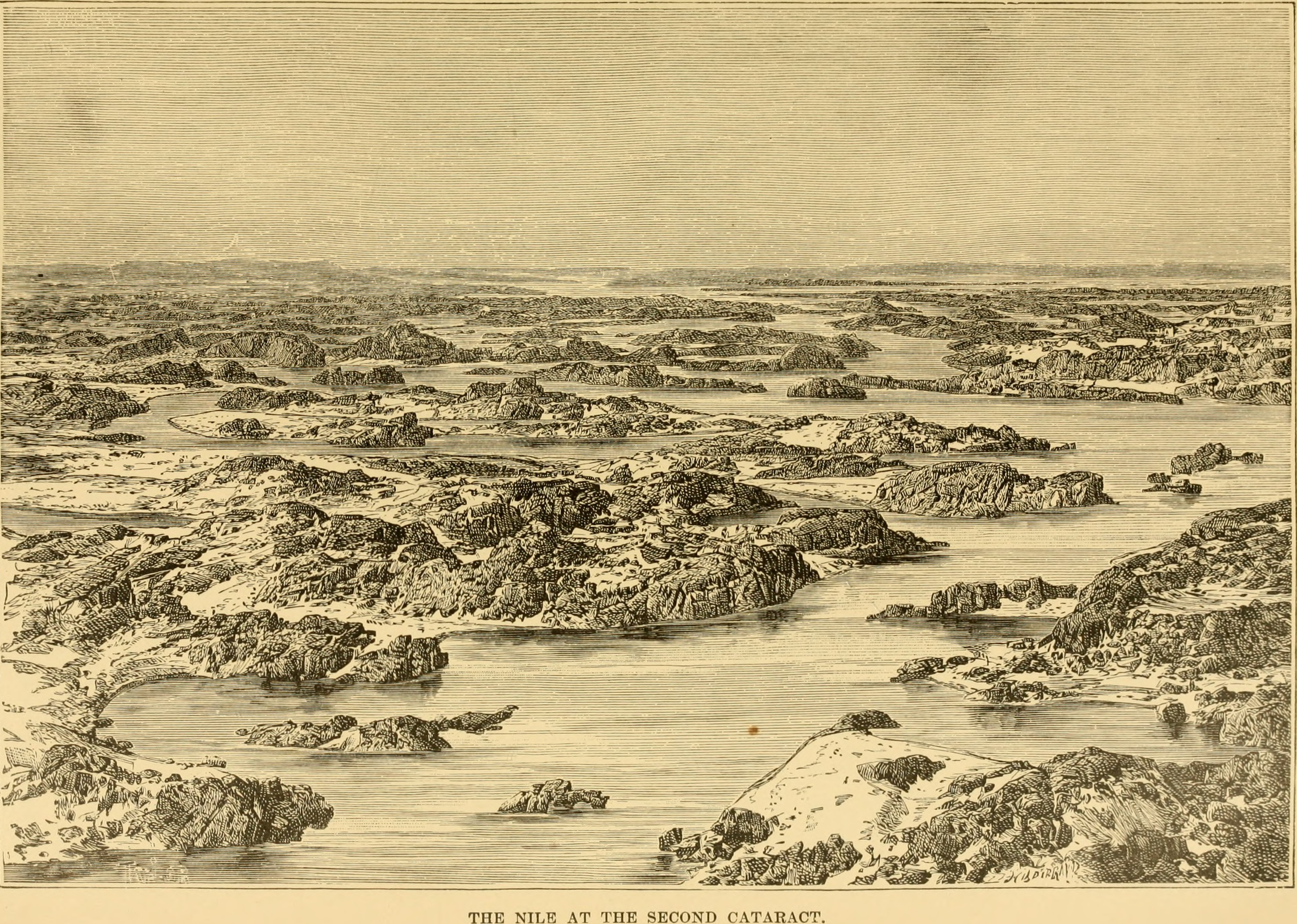 Title: The earth and its inhabitants .. Year: 1886 (1880s) Authors: Reclus, Elisée, 1830-1905; Ravenstein, Ernest George, 1834-1913; Keane, A. H. (Augustus Henry), 1833-1912 Subjects: Geography Publisher: New York, D. Appleton and company Text Appearing Before Image: ' Text Appearing After Image: '